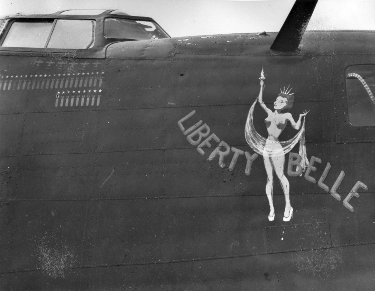 AL237-036 B-24D 41-23920 90th BG 321st BS - Liberty Belle (Repository: San Diego Air and Space Museum Archive)